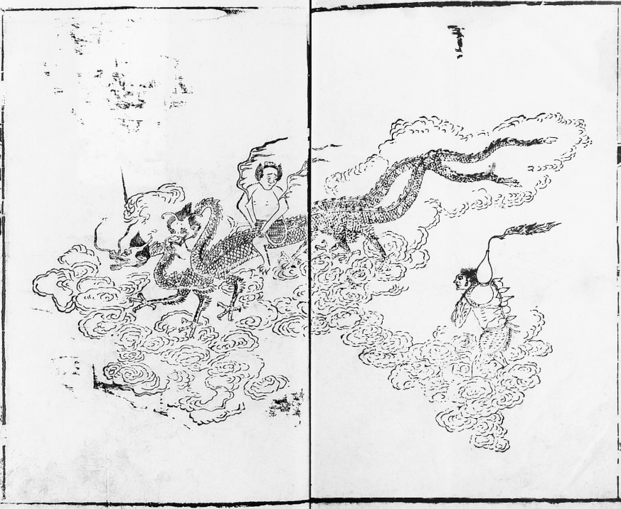 This image depicts the god Zhurong (祝融) who is riding two dragons and one of his divine subordinates who is bearing fire.